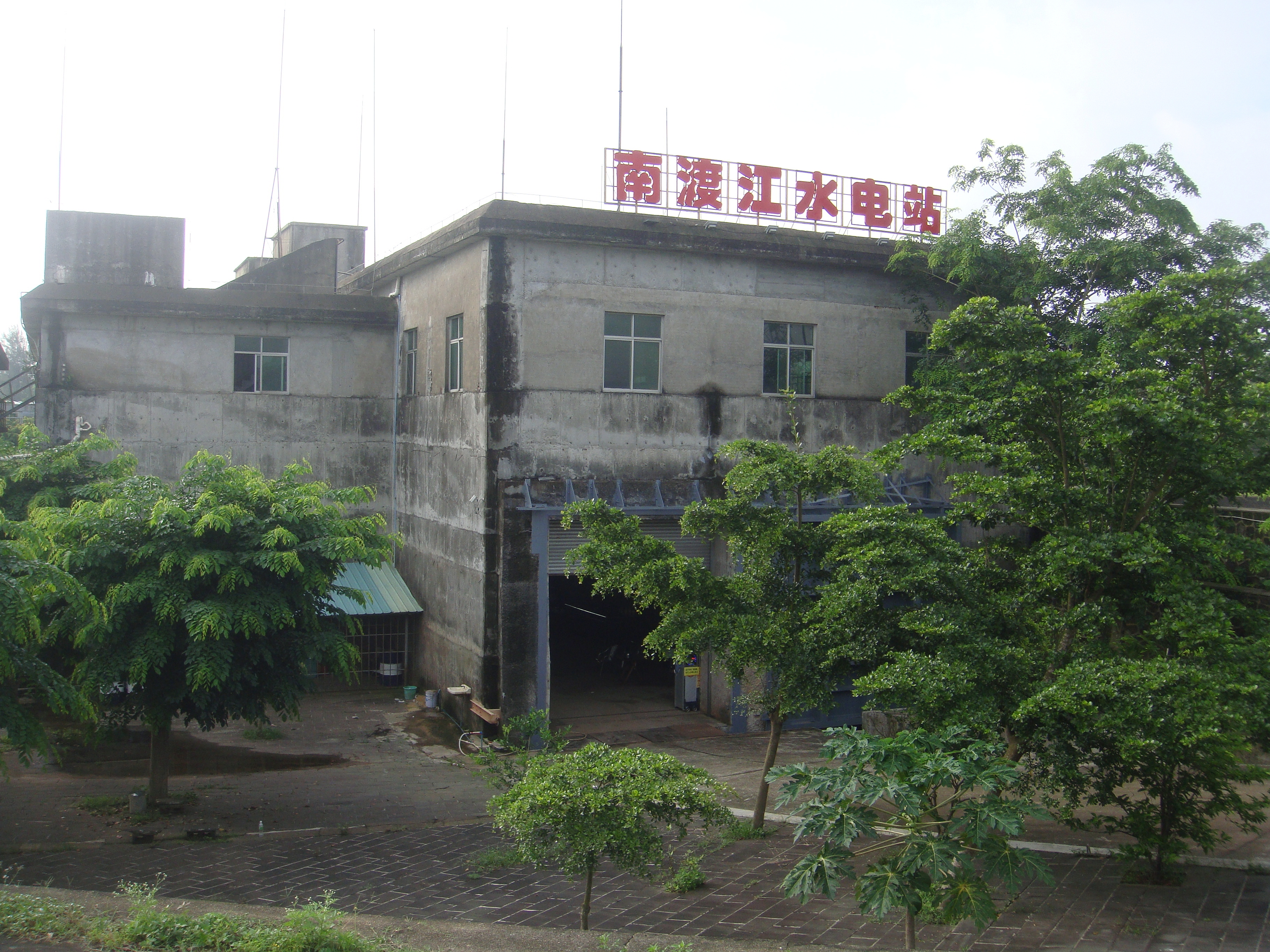 Longtang Dam's east bank generator building, Hainan, China